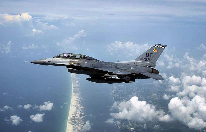 USAF F-16D block 40 #90-0799 from the 85th TES flies over the northwest Florida coastline during an evaluation mission on June 24th, 2004. [USAF photo by MSgt. Michael Ammons]